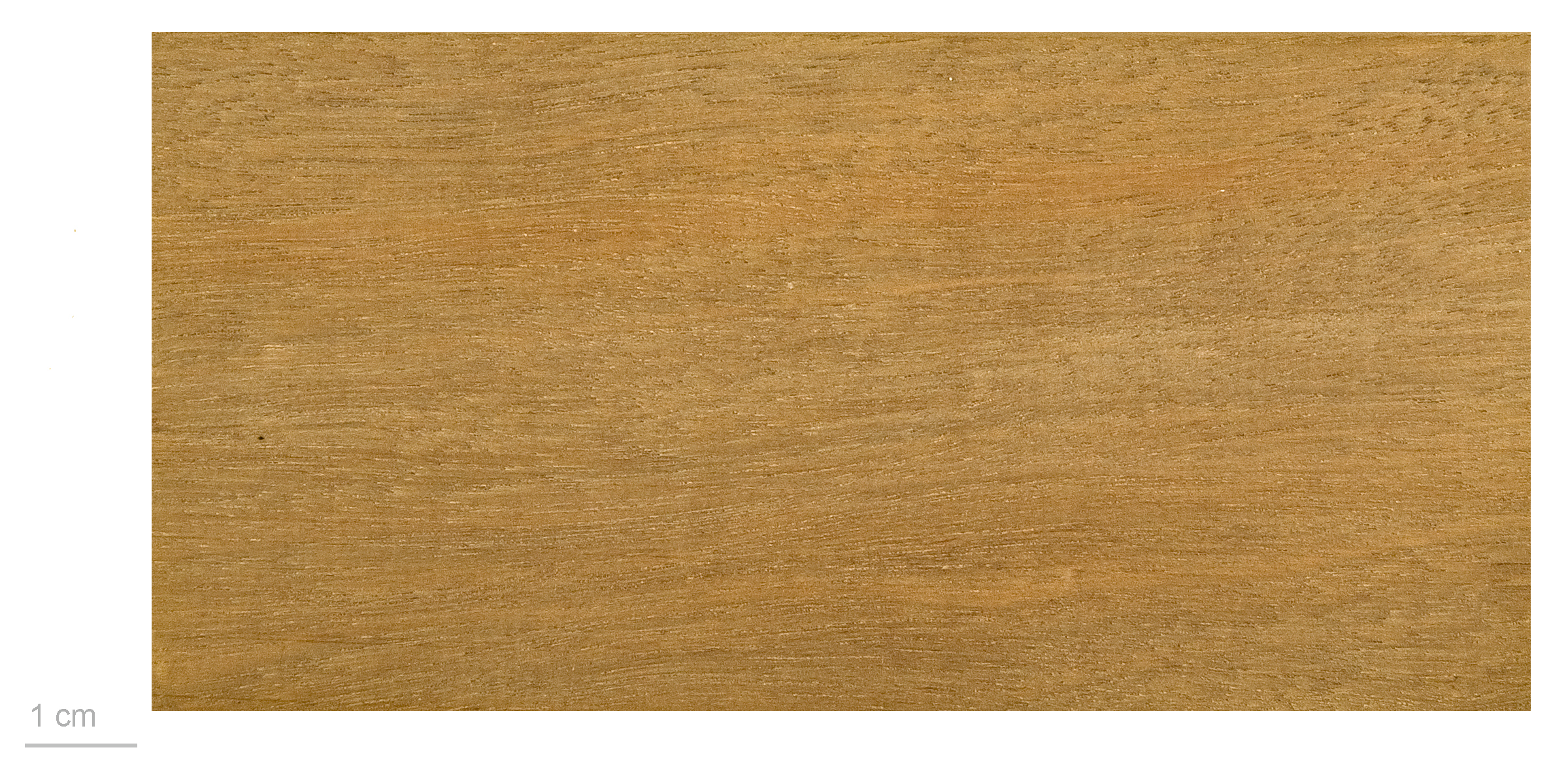 Carpolepis laurifolia, wood